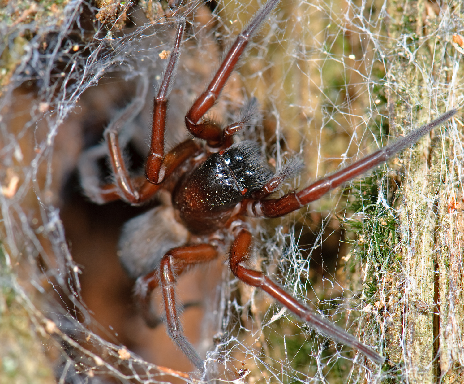 The cribellate webs of these spiders are very conspicuous on trunks of young Sequoia trees. Spiders themselves are active nocturnally at web entrances. Thanks to SL for the geographic-based species determination!